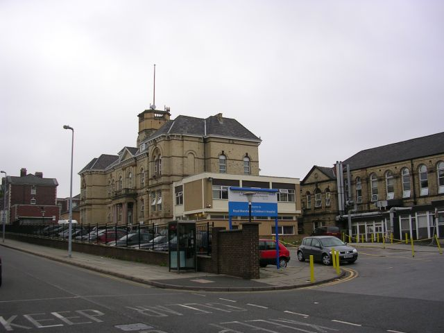 The Children's Hospital. The Royal Manchester Children's Hospital and Hospital Road, Pendlebury. The road and front of the hospital building lie within this square. The bulk of the hospital, however, lies in the one adjacent.